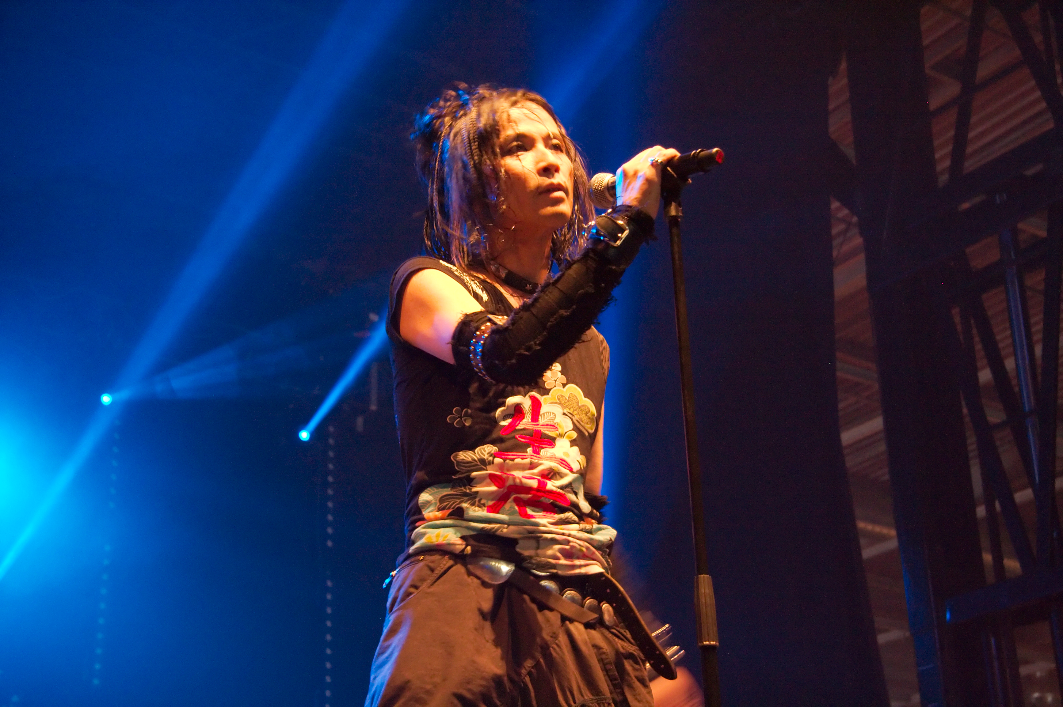 Zamza N'Banshee live at Japan Expo 2009 (Paris, France)